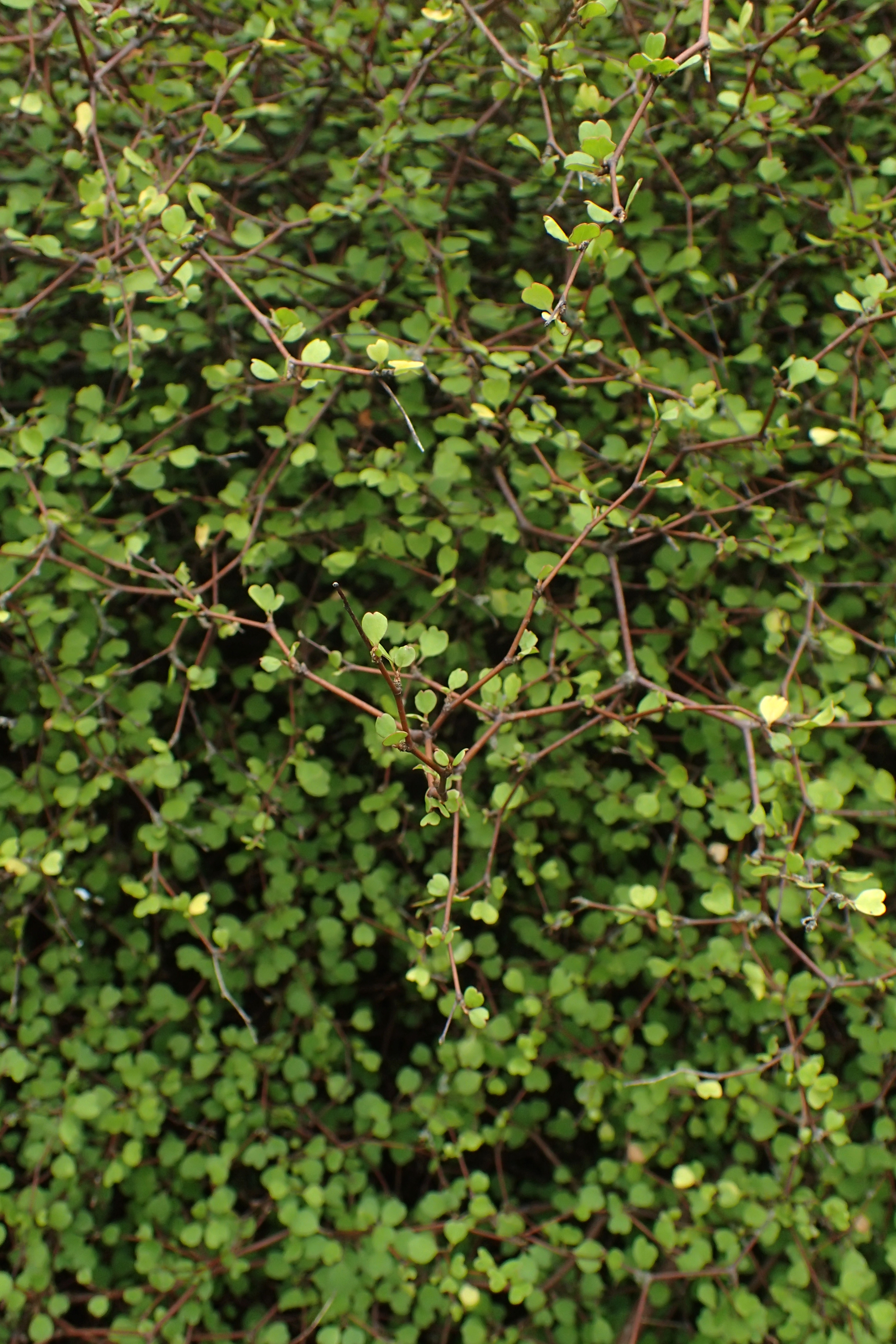 Muehlenbeckia astonii in Auckland Botanic Gardens